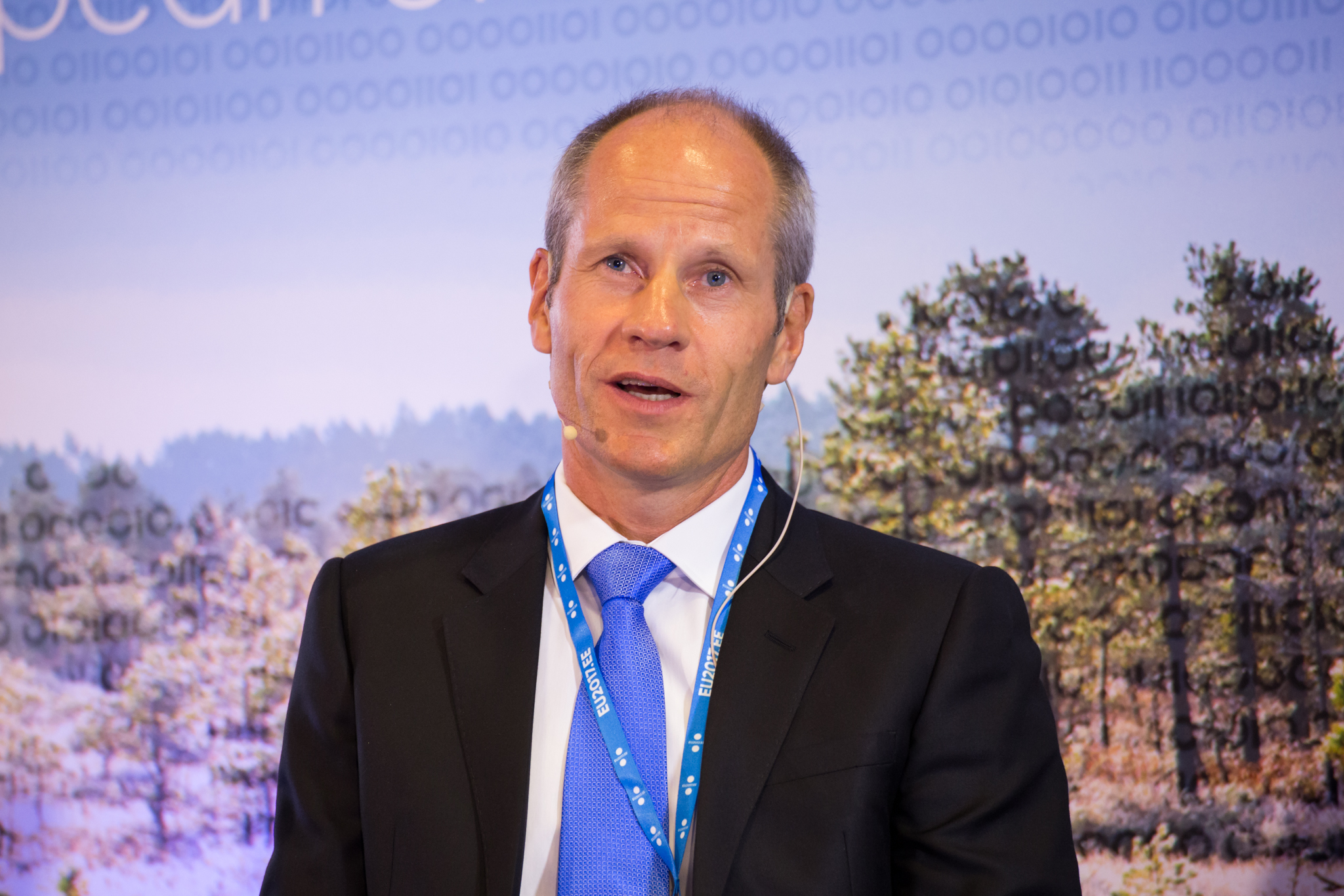 Tõnu Tõniste, Vice-President of the Estonian Olympic Committee and Chair of the Estonian Olympic Committee Commission of Top Sport. Conference 'Role of sport coaches in society. Adding value to people's lives'